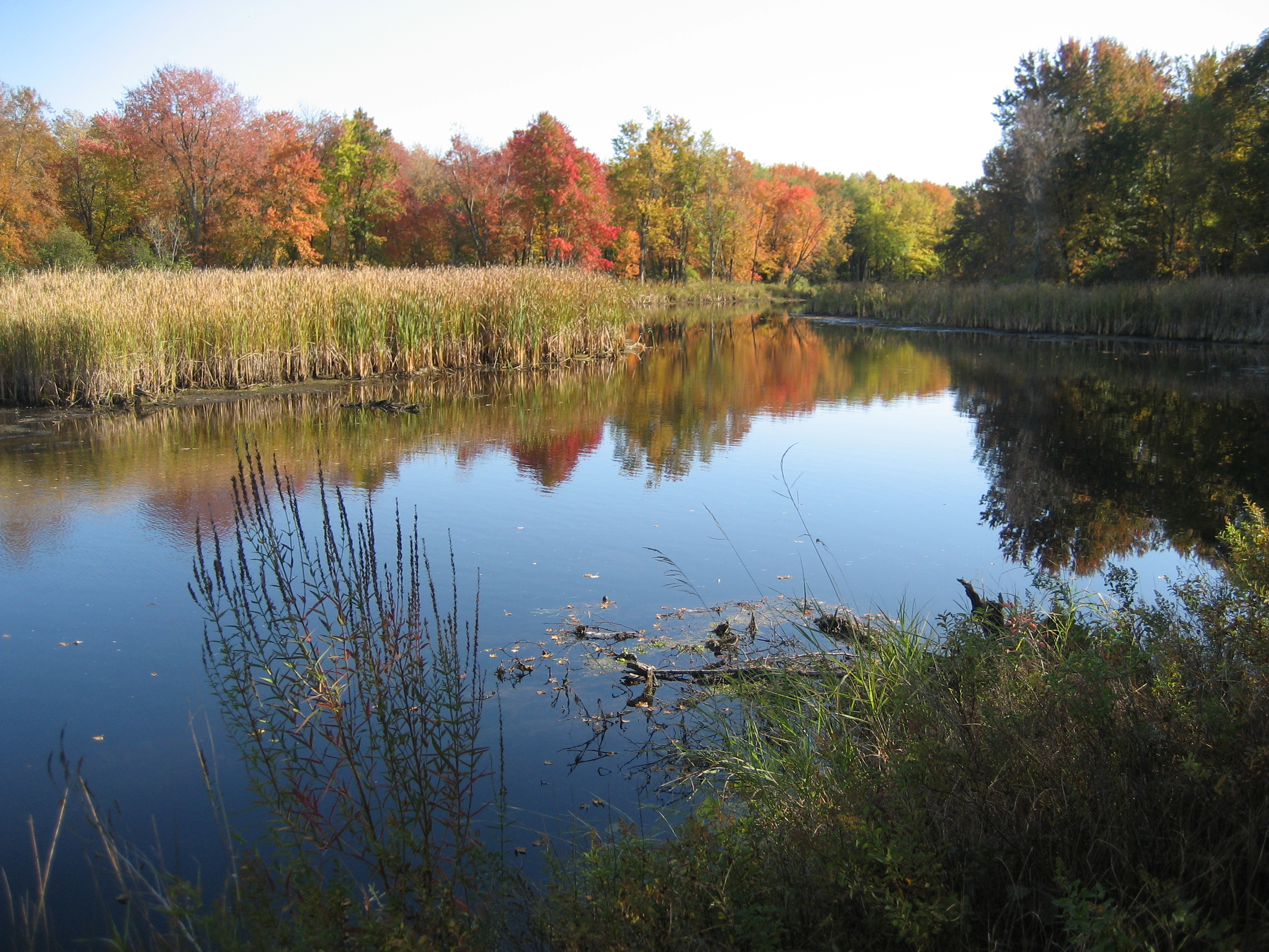 Southern leg of Black Pond, within the Black Pond Wildlife Management Area on eastern Lake Ontario in New York State.